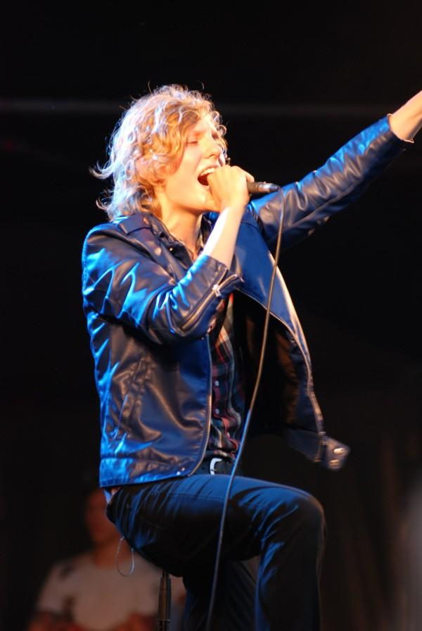 Fotography of Mattias Kolstrup at the Dúné concert at Bochum Total 2009, 1live Stage